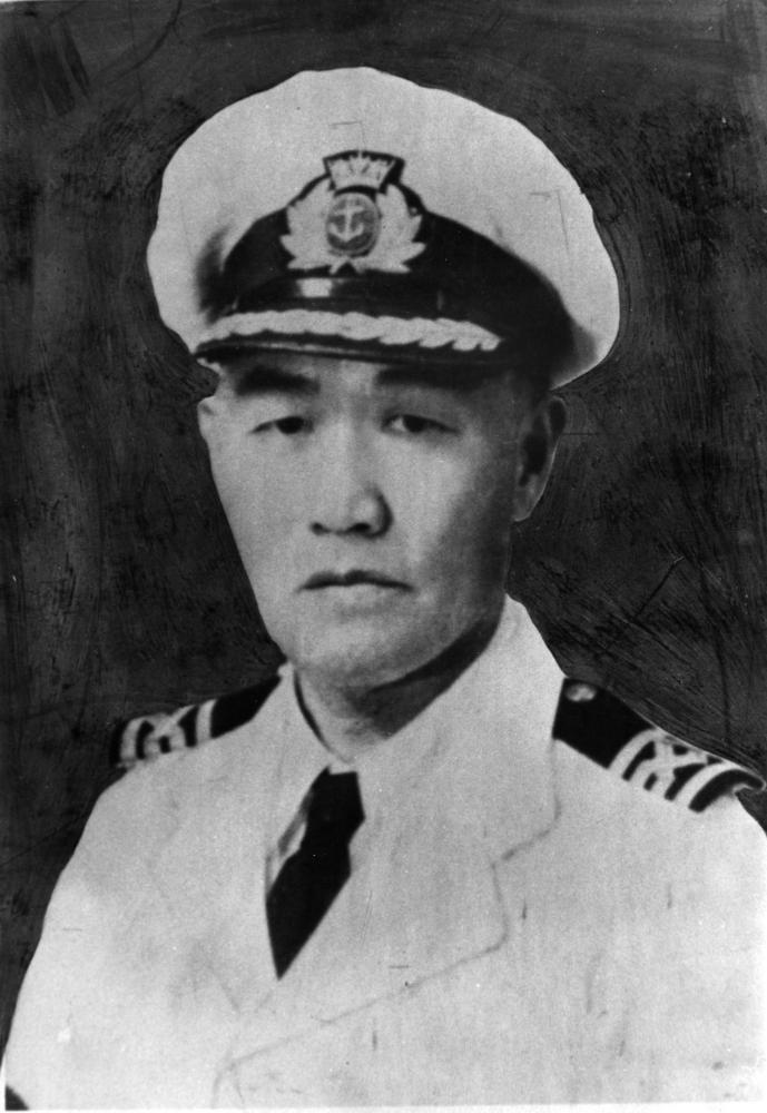 Image of former PM of South Korea and later defense minister, Shin Sung-mo